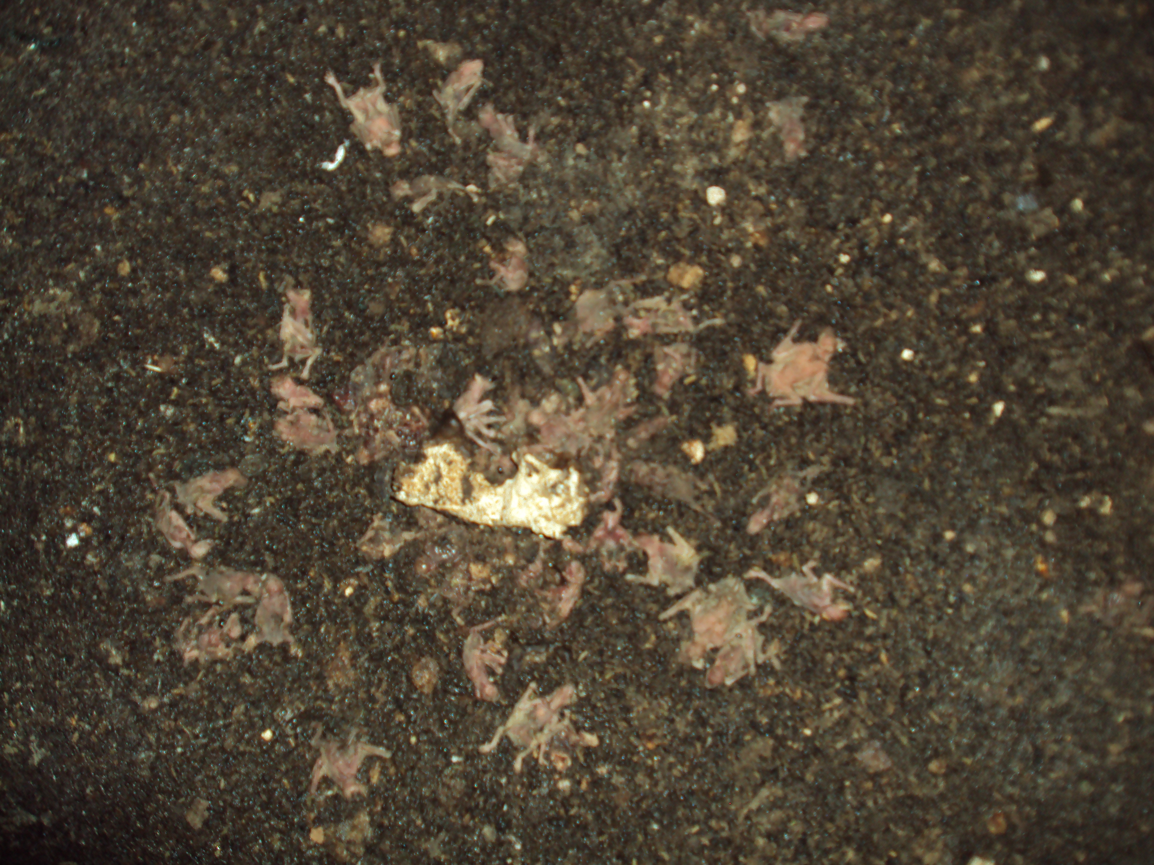 Devetashka Cave, Bulgaria